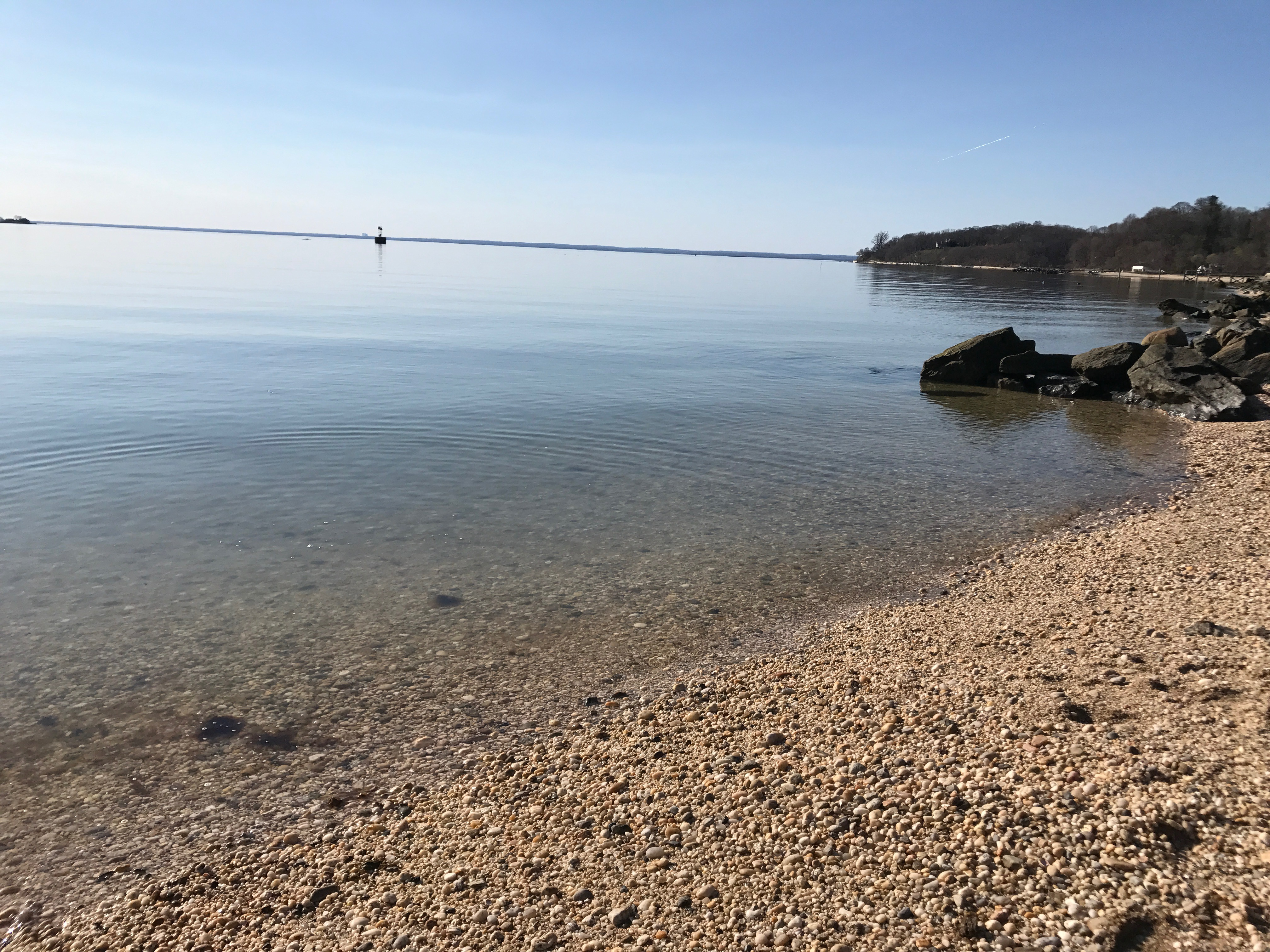 Image taken near Lloyd Harbor Road before the turn for Caumsett State Historic Park.